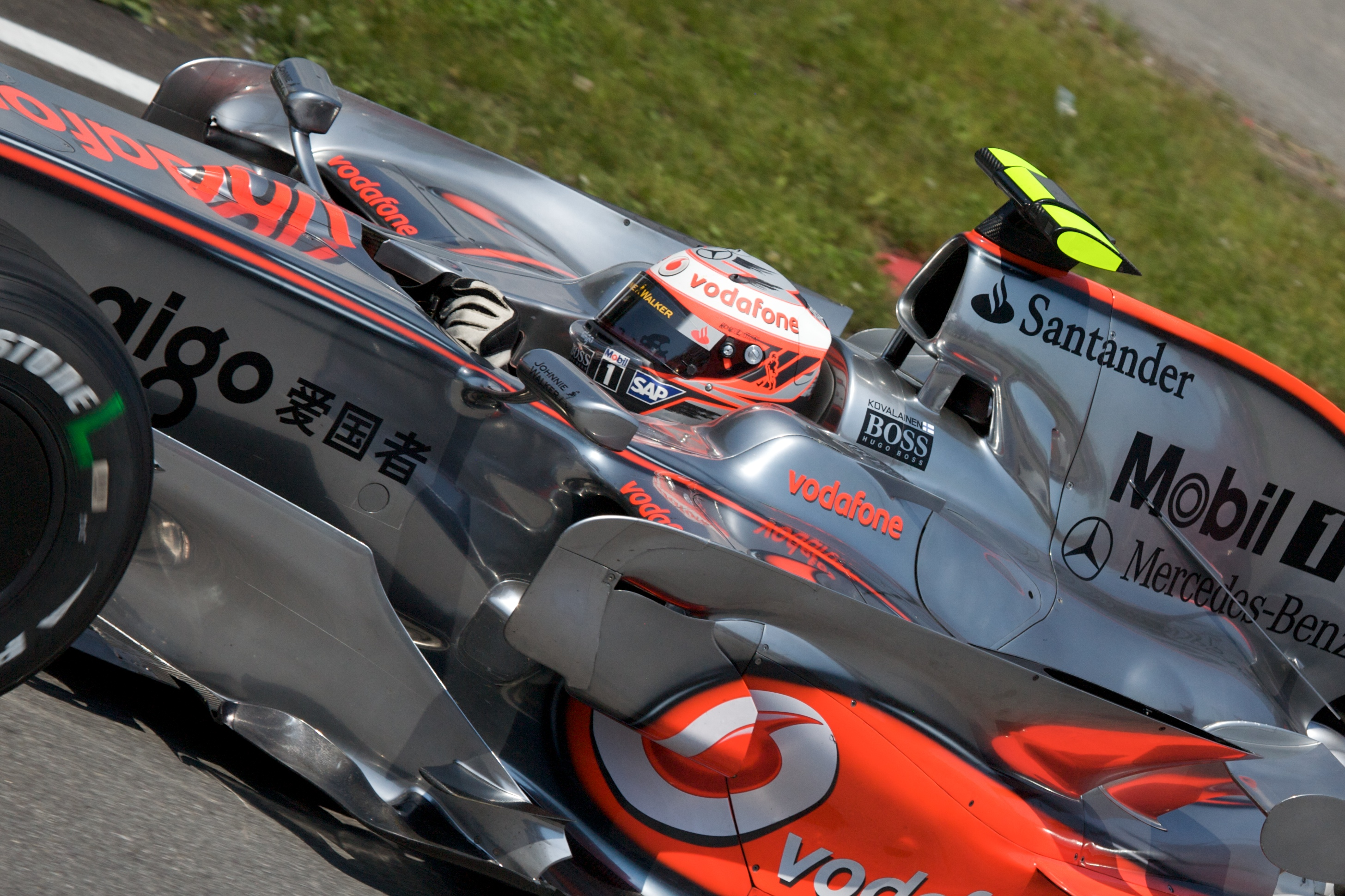 Heikki Kovalainen driving for McLaren at the 2008 Canadian Grand Prix.